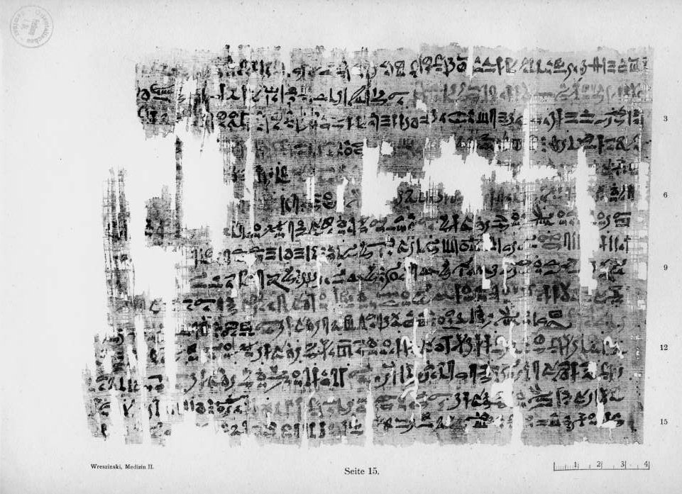 Plate 15 of London Medical Papyrus